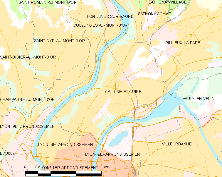 Map of French municipality